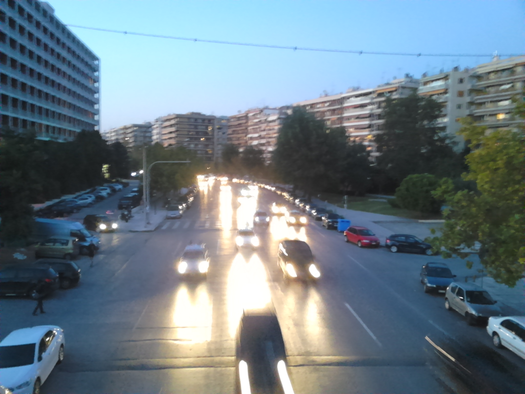 View of Great Alexander Avenue from a bridge near Macedonia Palace Hotel at Thessaloniki, Greece